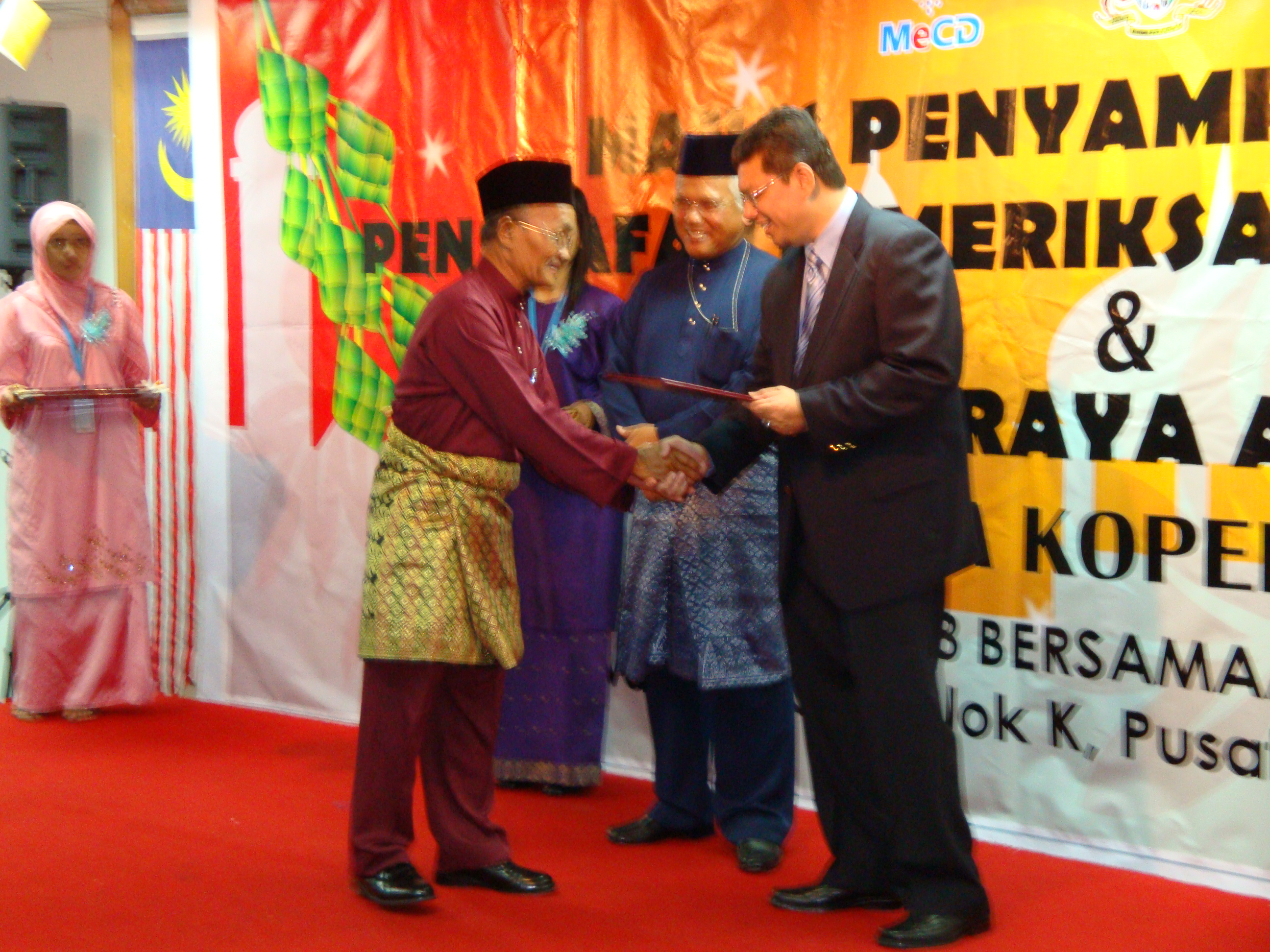 Bank Persatuan's Chairman, Dato' Haji Mohamed Haji Darus during presenting ceremony of "Sijil Penarafan Koperasi" officiated by Y.B Dato' Saifuddin Abdullah, the then Deputy Minister of Ministry of Entrepreneurship & Co-operative Development (MECD).